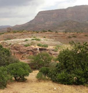 Aregen ridge seen from the west